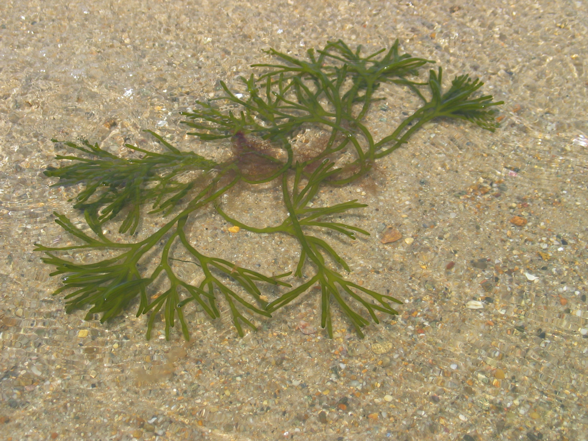 Codium fragile (Dead Man's Fingers), Massachusetts coast. author: Flyingdream